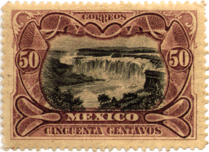 1899 50 Centavos postage stamp of Mexico — showing Juanacatlán Falls in Juanacatlan, Jalisco state. A waterfall on the Santiago River.